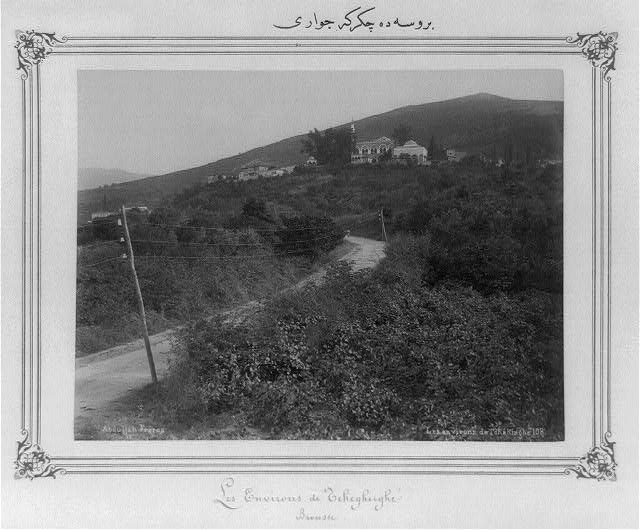 The environs of Çekirge in Bursa between 1880 and 1893